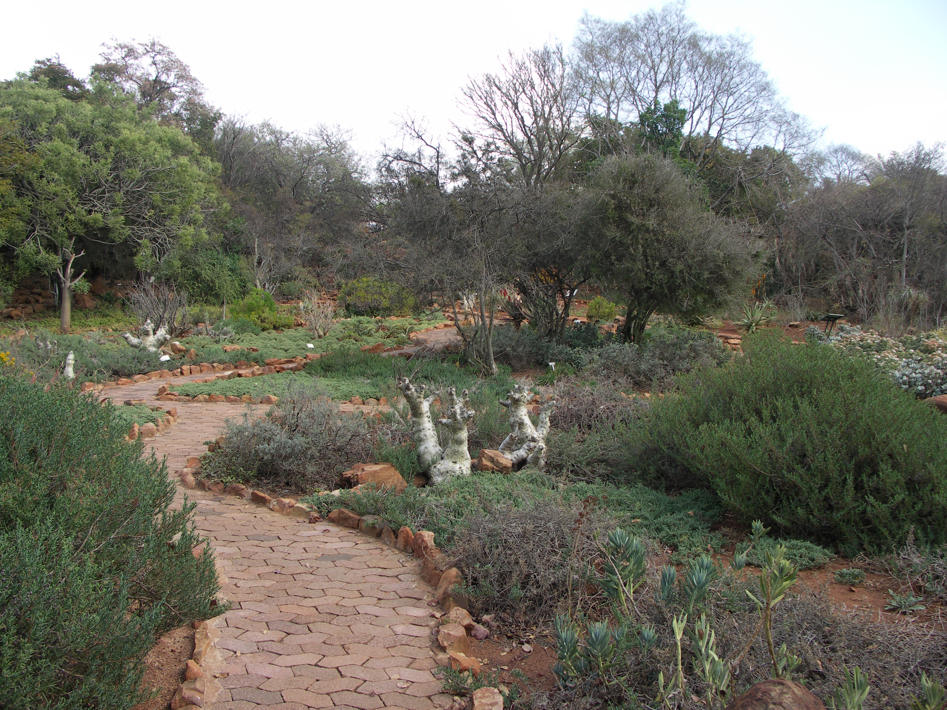 National Botanical Gardens in Pretoria